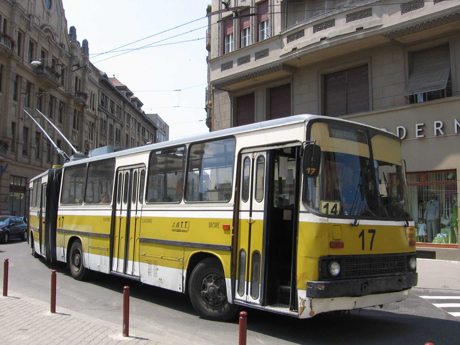 Timişoara trolleybus 17, a 1985 Ikarus 280T, was ex-Eberswalde (Germany) 006, acquired secondhand in 1995. It was retired/withdrawn in Timişoara in 2007 or 2008.